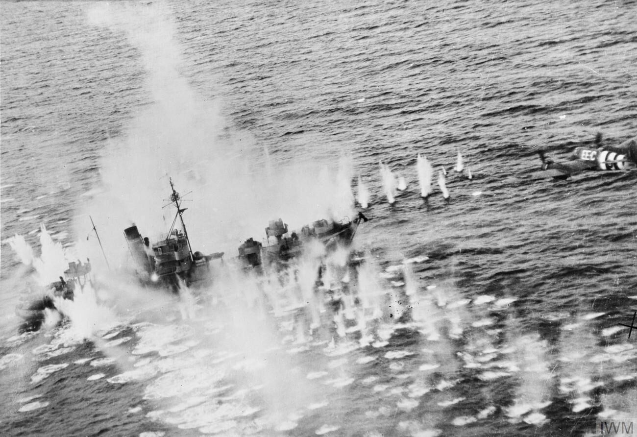 Royal Air Force 1939-1945- Coastal Command The German Vorpostenboot (flak ship) Vp1605 MOSEL, escorting the Norwegian freighter INGER JOHANNE off Lillesand, engulfed in a torrent of fire from Beaufighters of No 404 Squadron RCAF, one of which can be seen passing overhead at mast height, 15 October 1944. The ships were attacked by 21 Beaufighters and 17 Mosquitos of the Banff and Dallachy Wings. The MOSEL eventually blew up and sank.